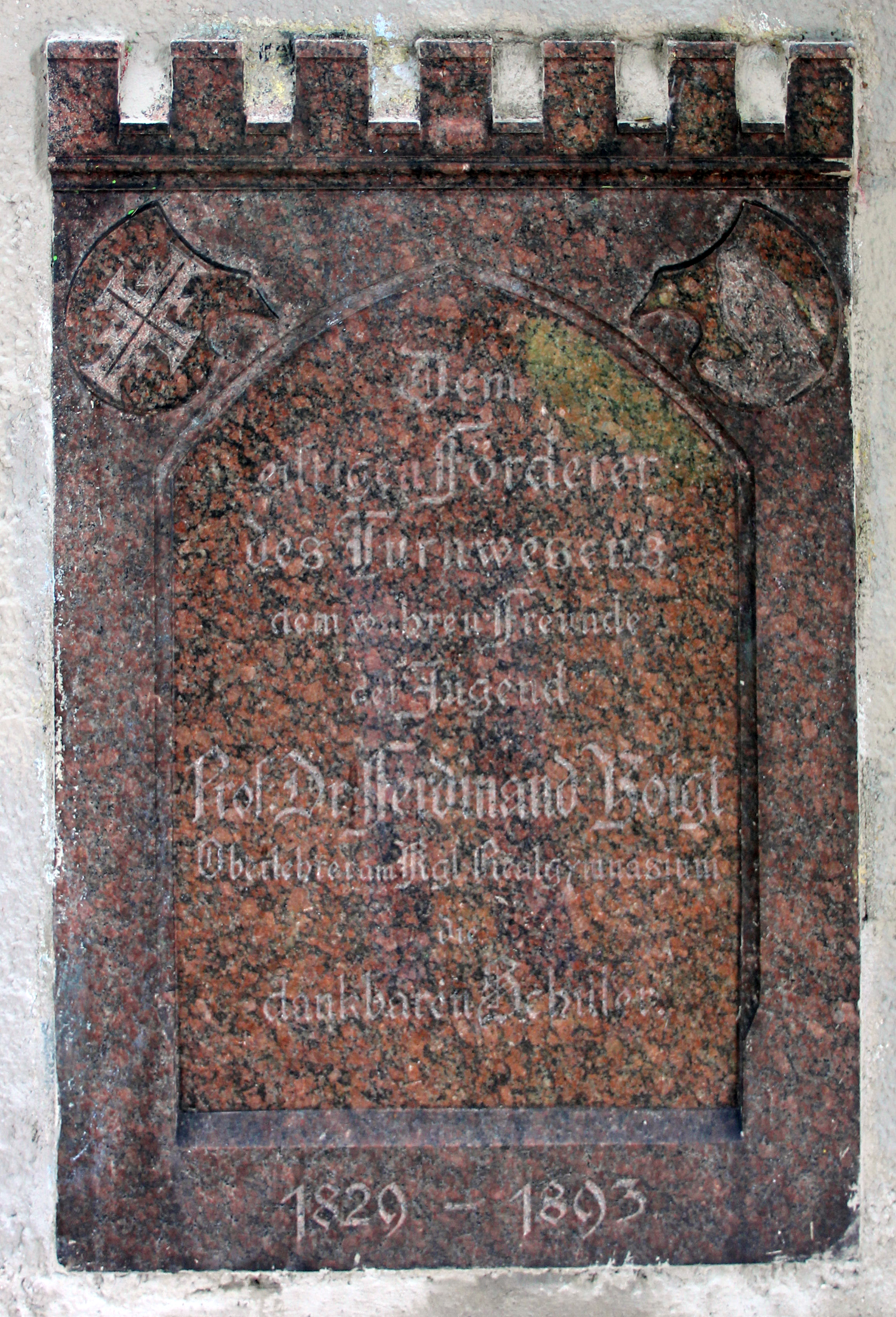 Memorial plaque, Ferdinand Voigt, Hasenheide 100, Berlin-Neukölln, Germany